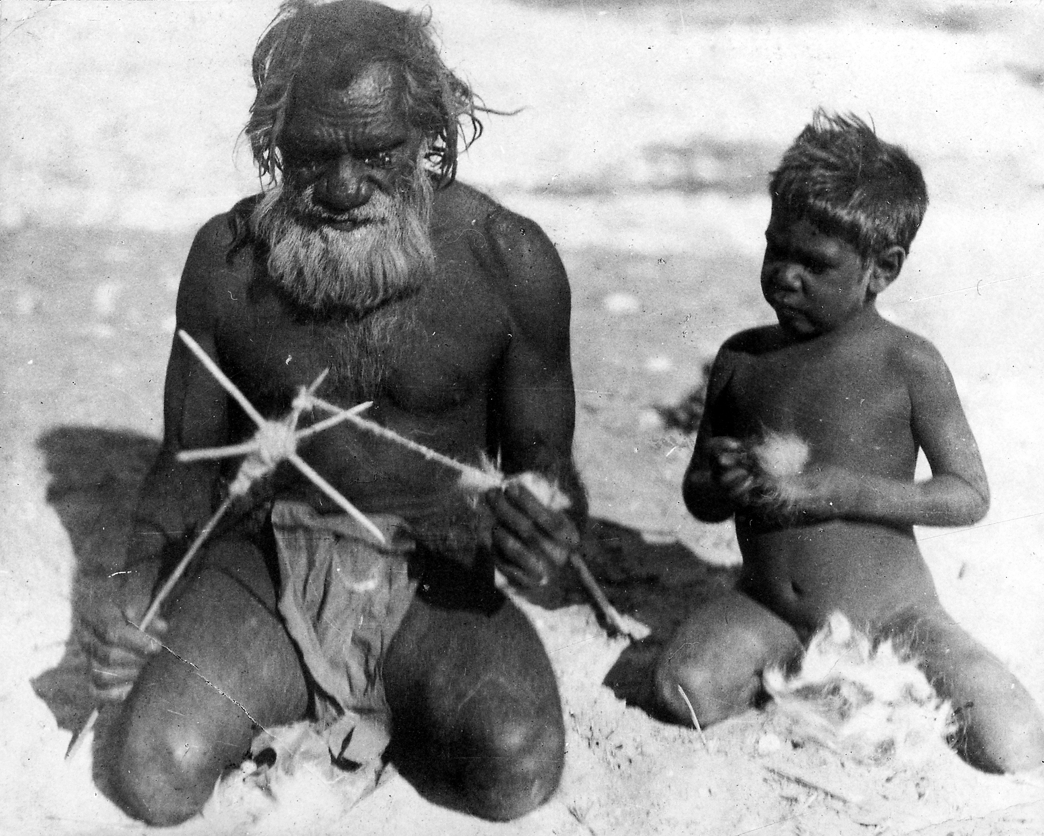 A lesson in spinning string, Central Australia. Wellcome Images Keywords: Ethnology; childcare; indigenous non-european medicine